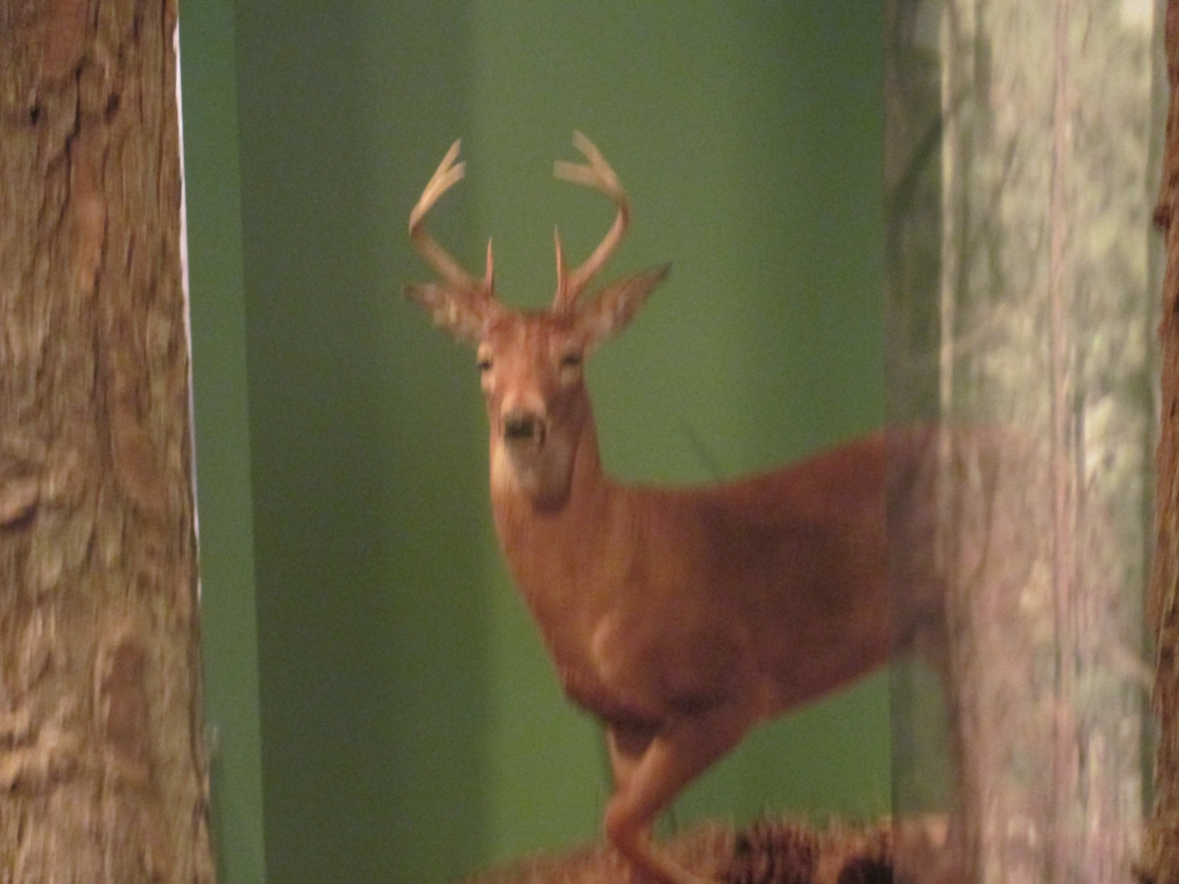 Stuffed deer at Cape Fear Museum in Wilmington, North Carolina. Credits I took photo with Canon camera.